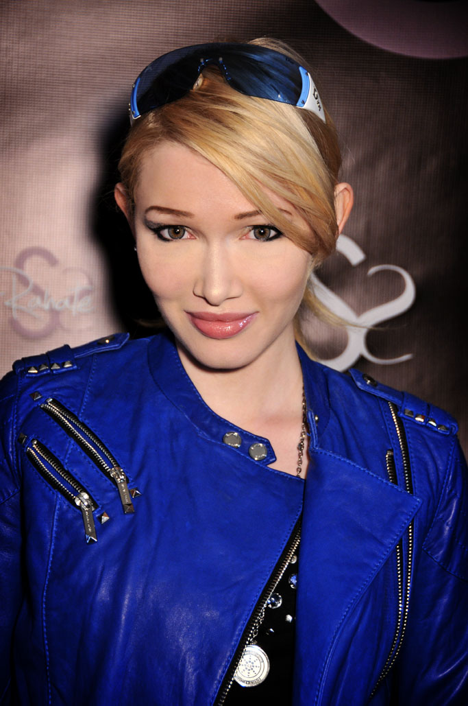 Emii, West Hollywood, California on May 16, 2013 - Photo by Glenn Francis of